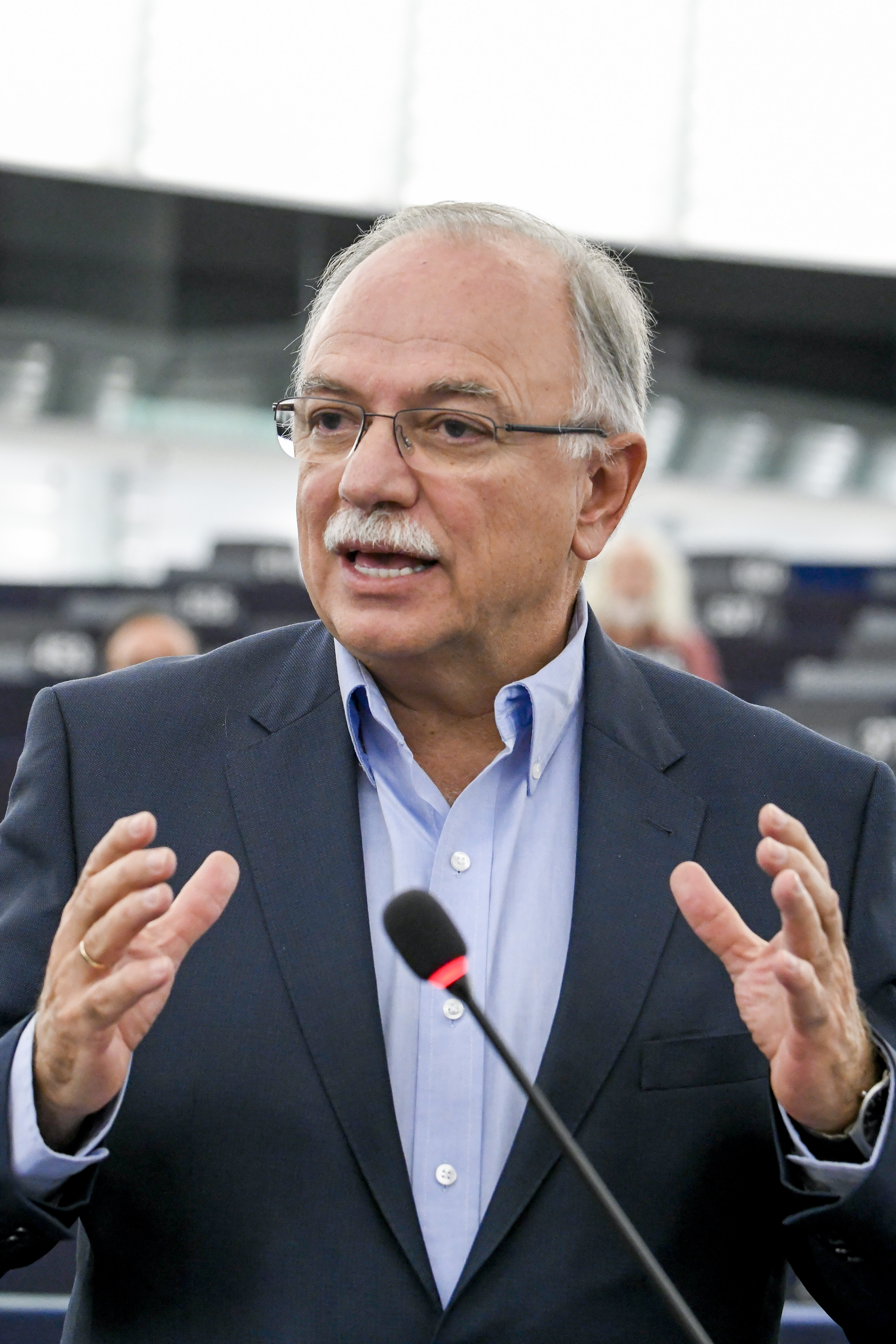 Plenary session - Preparation of the European Council meeting of 12 and 13 December 2019